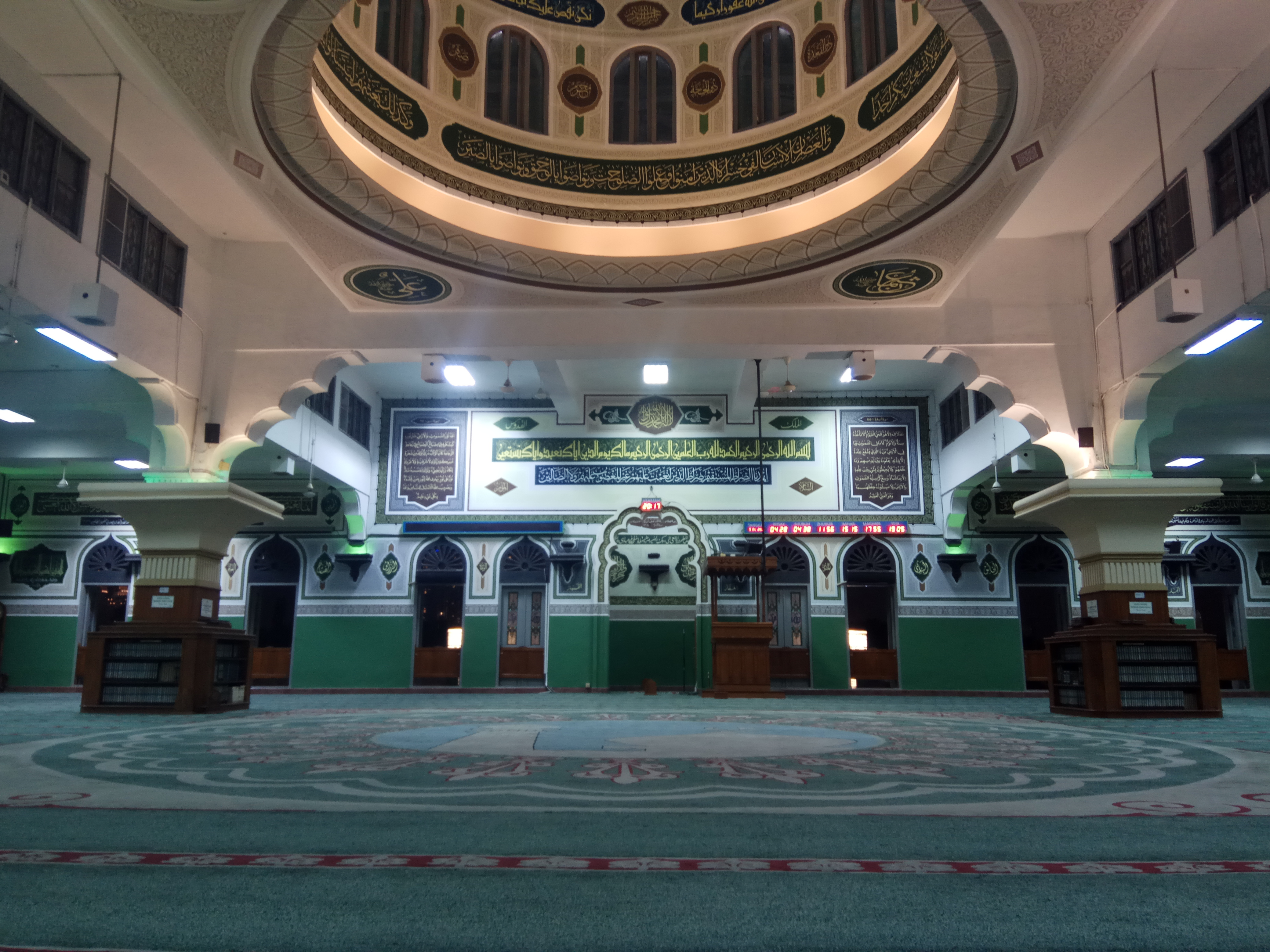 Al-Azhar Great Mosque